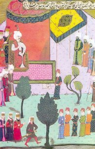 Yauz Sultan Selim in Egypt